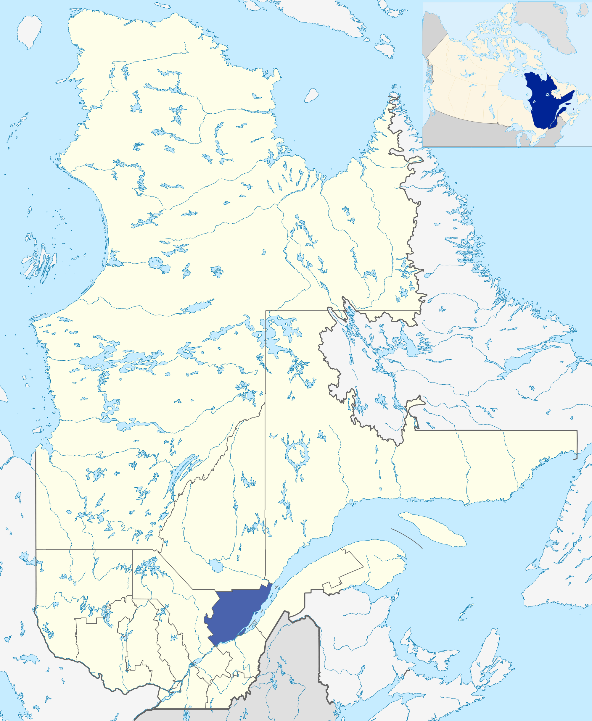 Location map for the Capitale-Nationale (Quebec - Canada).